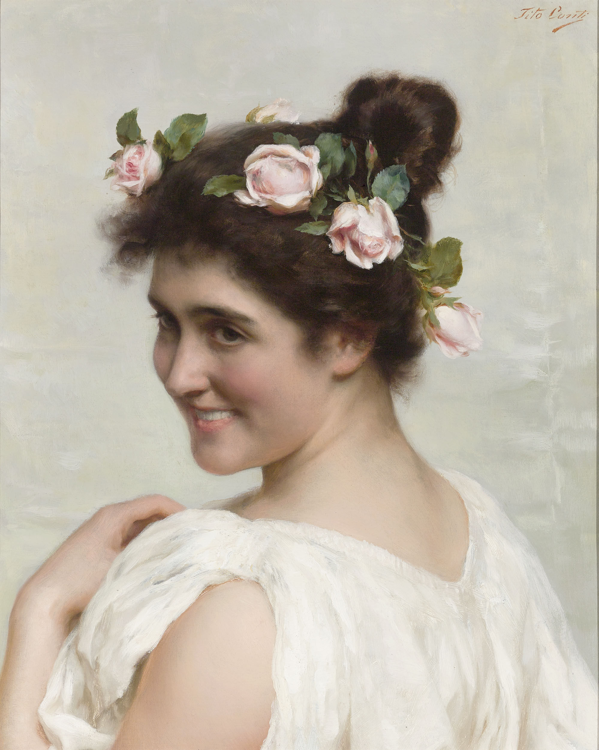 An Italian Beauty by Tito Conti. Signed "Tito Conti" (upper right). Circa 1880